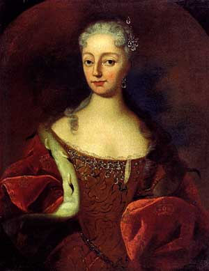 Portrait Anne Sophie Reventlow (1693-1743), spouse by bigamy of the king of Denmark and later lawfully queen-consort